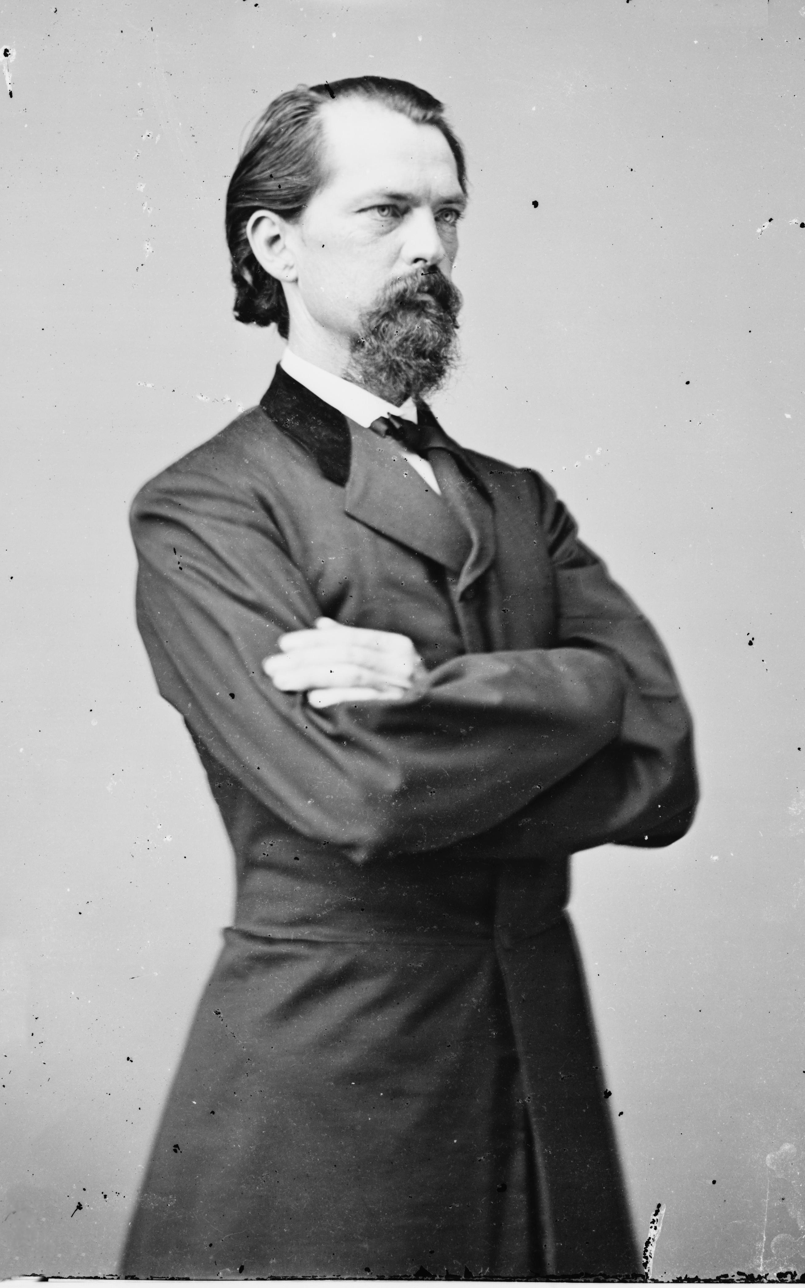 John Brown Gordon. Library of Congress description: "Gen. John Gordon"